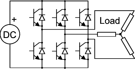 3-phase inverter circuit with wye connected load, drawn by C J Cowie using MicroGrafx Designer